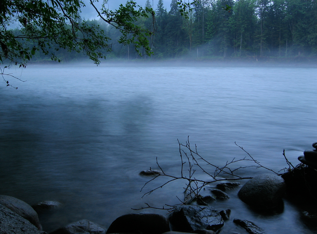 Took some long exposures of the Skagit River near Marblemount, dusk after sunset, when there was eerie mist rising from the water.